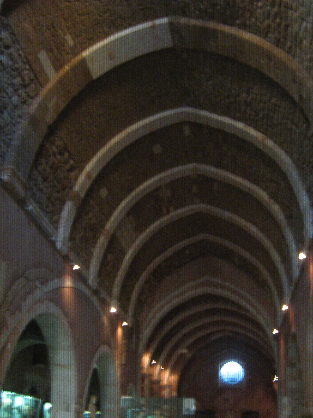 Intern of Museum, Cania (Crete)